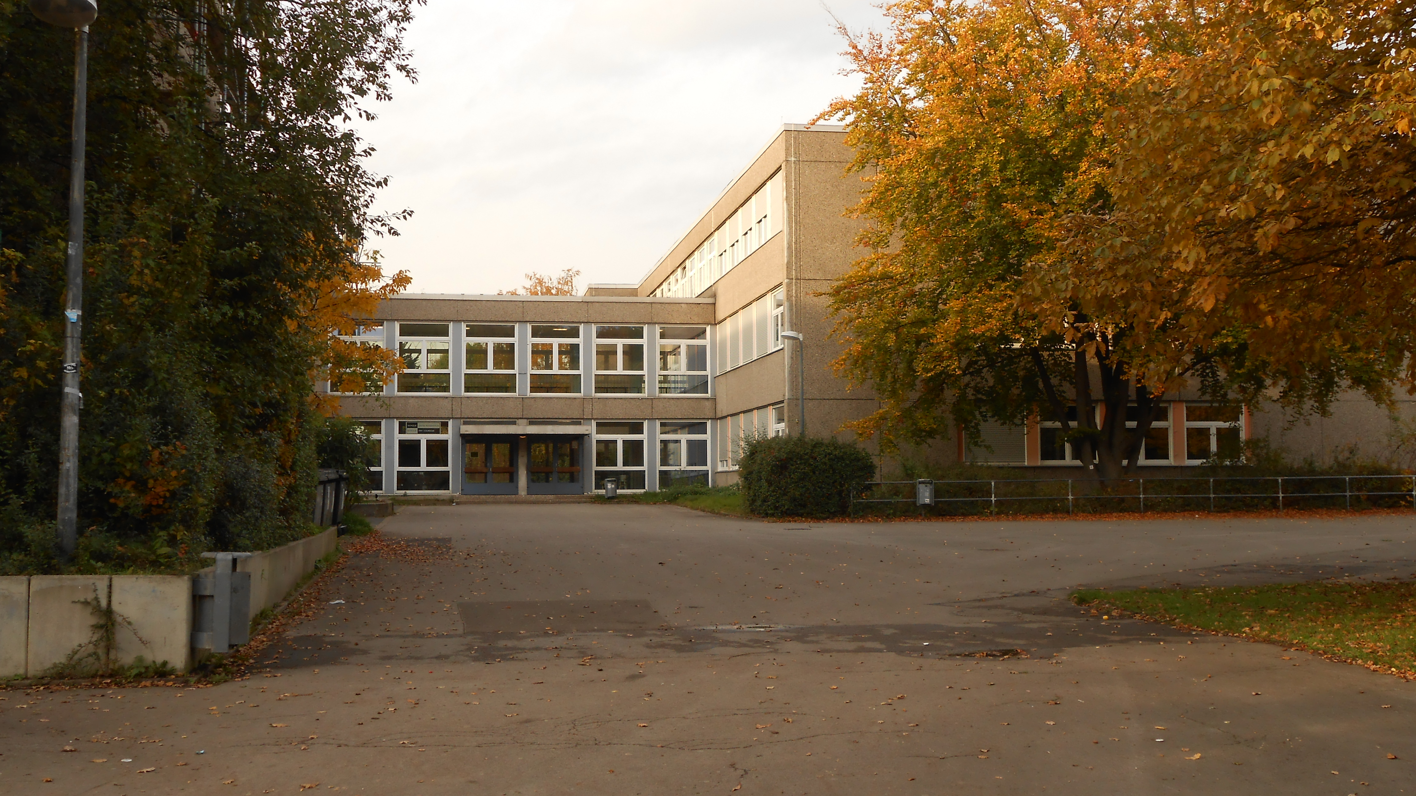 The Geschwister-Scholl-Gesamtschule, a comprehensive school in Dortmund-Brackel, Germany, named after sister and brother Hans and Sophie Scholl, members of a resistance group in Nazi Germany.